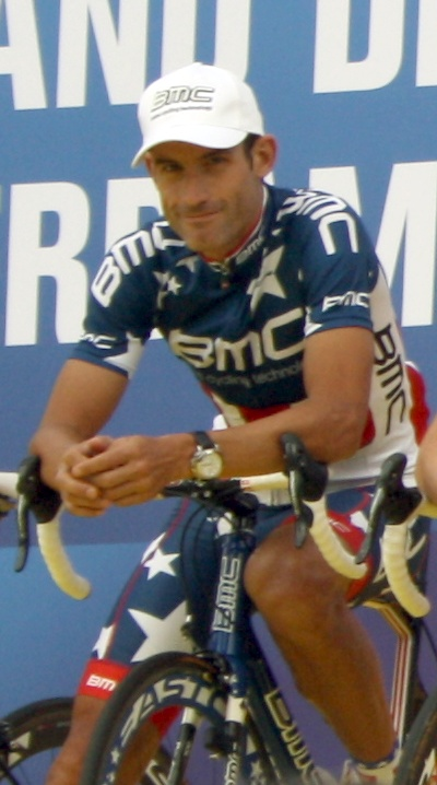 George Hincapie at the team presentation of the 2010 Tour de France in Rotterdam